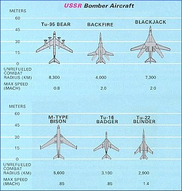 Comparison of Soviet bomber fleet. Adapted from Soviet Military Power (1985), Fourth Edition, Department of Defense.